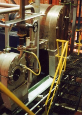 View of 2 pusher centrifuges (500 and 800 mm) in a Salt Plant in Romania Author : R. Castelnuovo (myself) - Year 2000